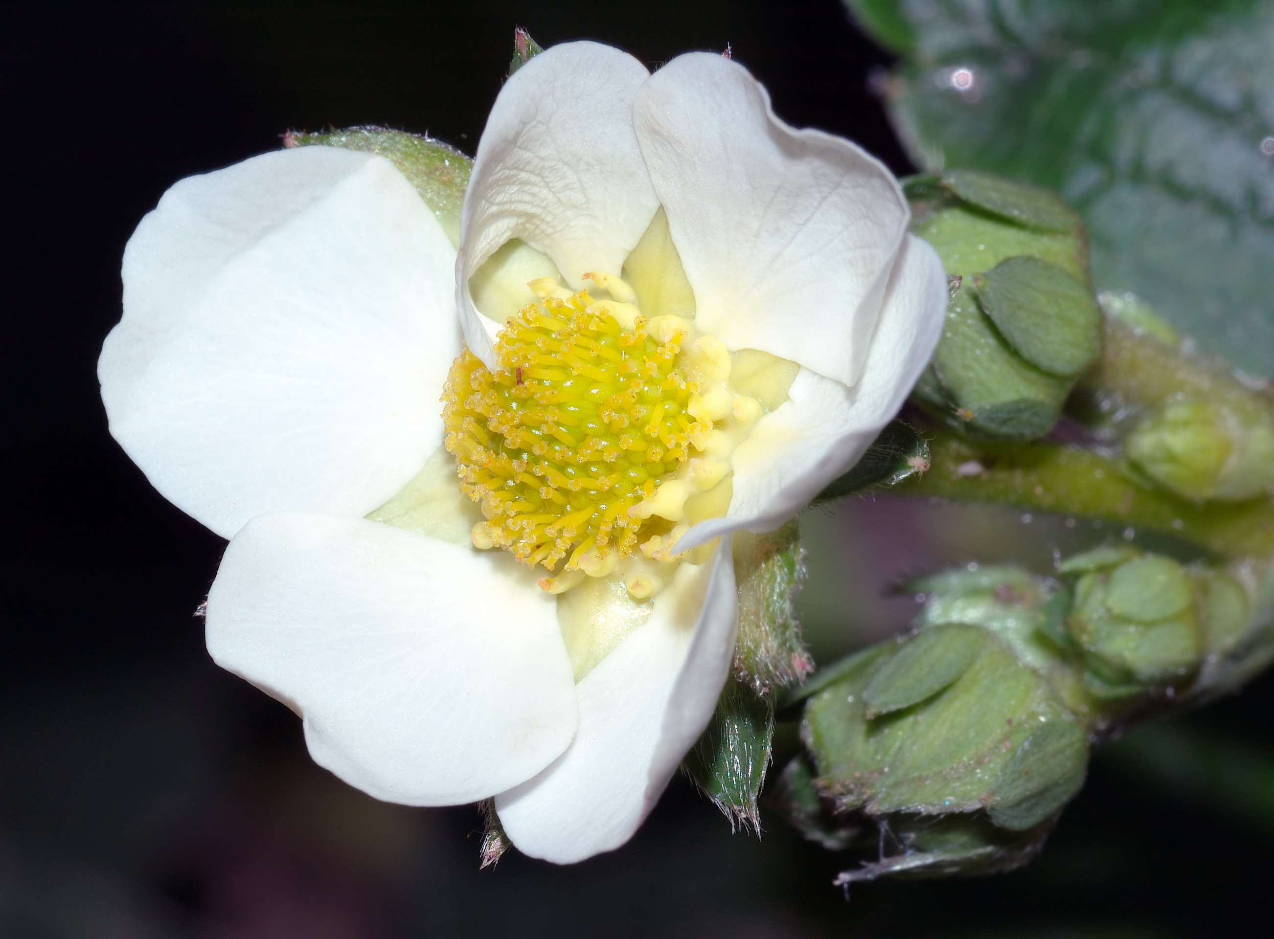 This image shows a Strawberry blossom.